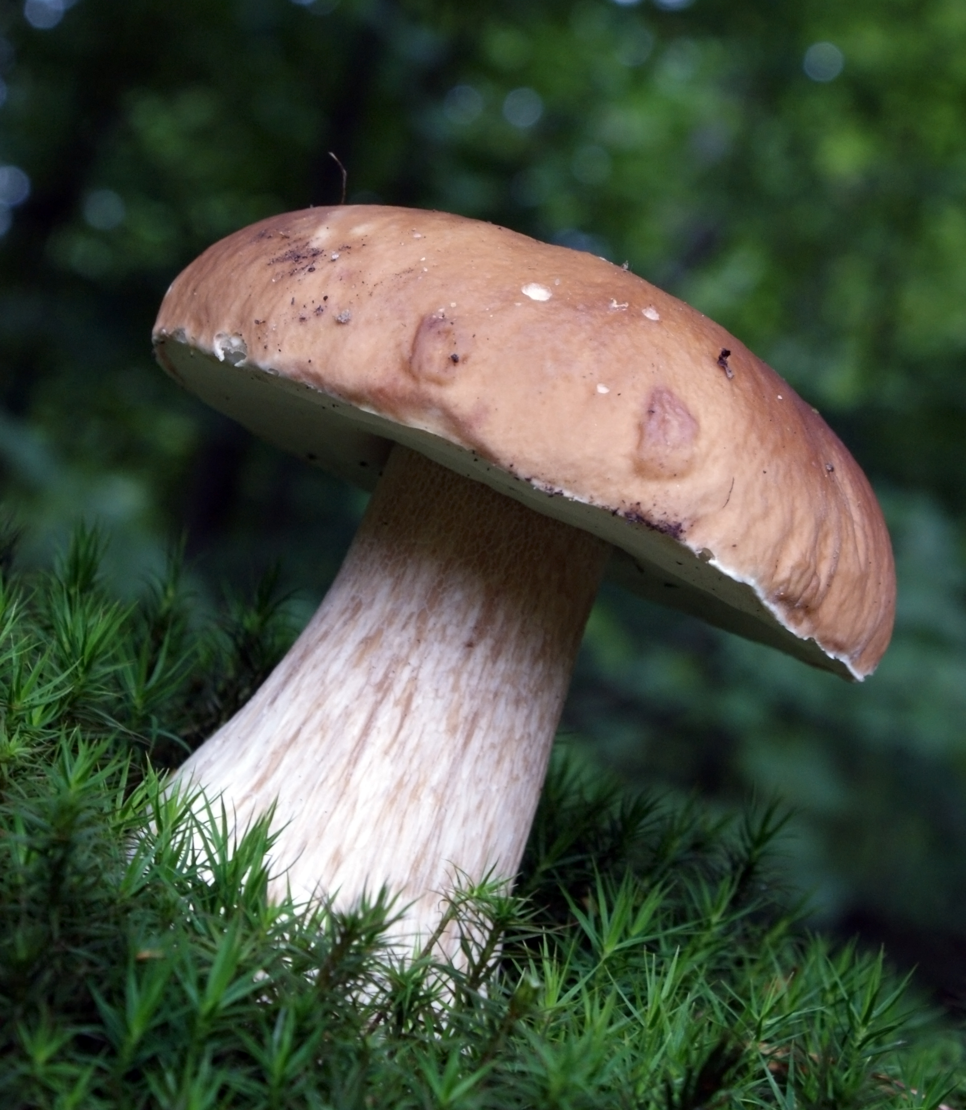 Boletus edulis. Tuchola Forest, Poland.